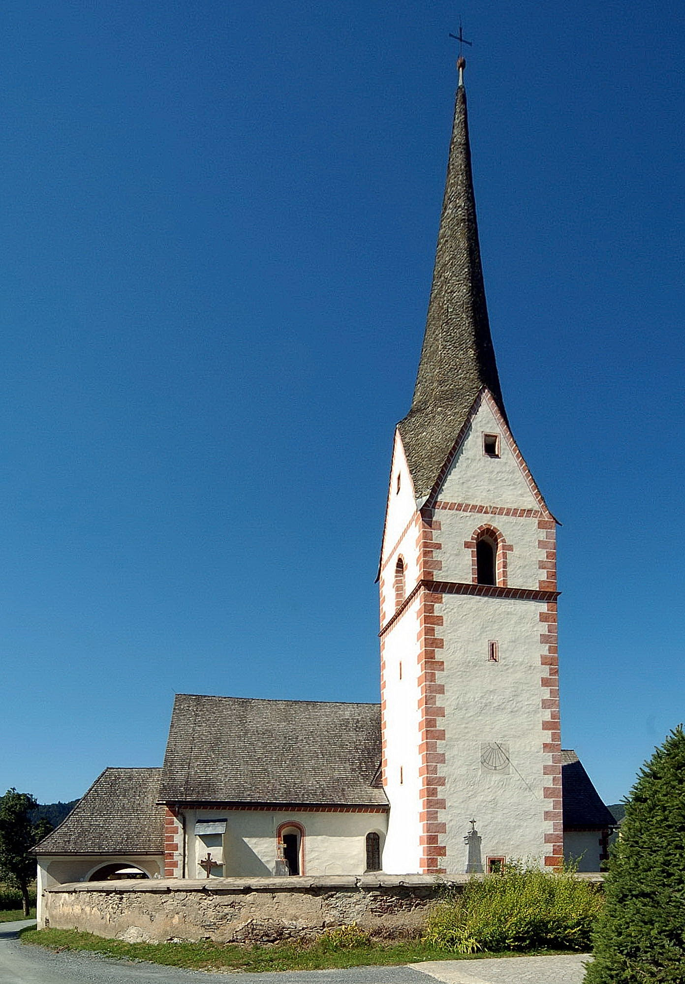 Subsidiary church Saint Martin in Sankt Martin, municipality Sankt Georgen am Längsee, district Sankt Veit, Carinthia, Austria, EU